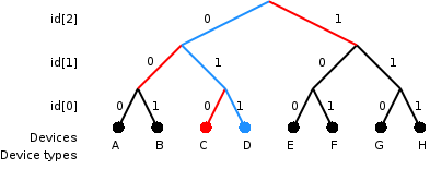 Schematic representation of typical RFID search environments, where large numbers of tags can be probed and located by means of simple primitive commands such as "respond if bit i of your tag is 0/1". The diagram shows a possible search path to find a certain device or group of devices.